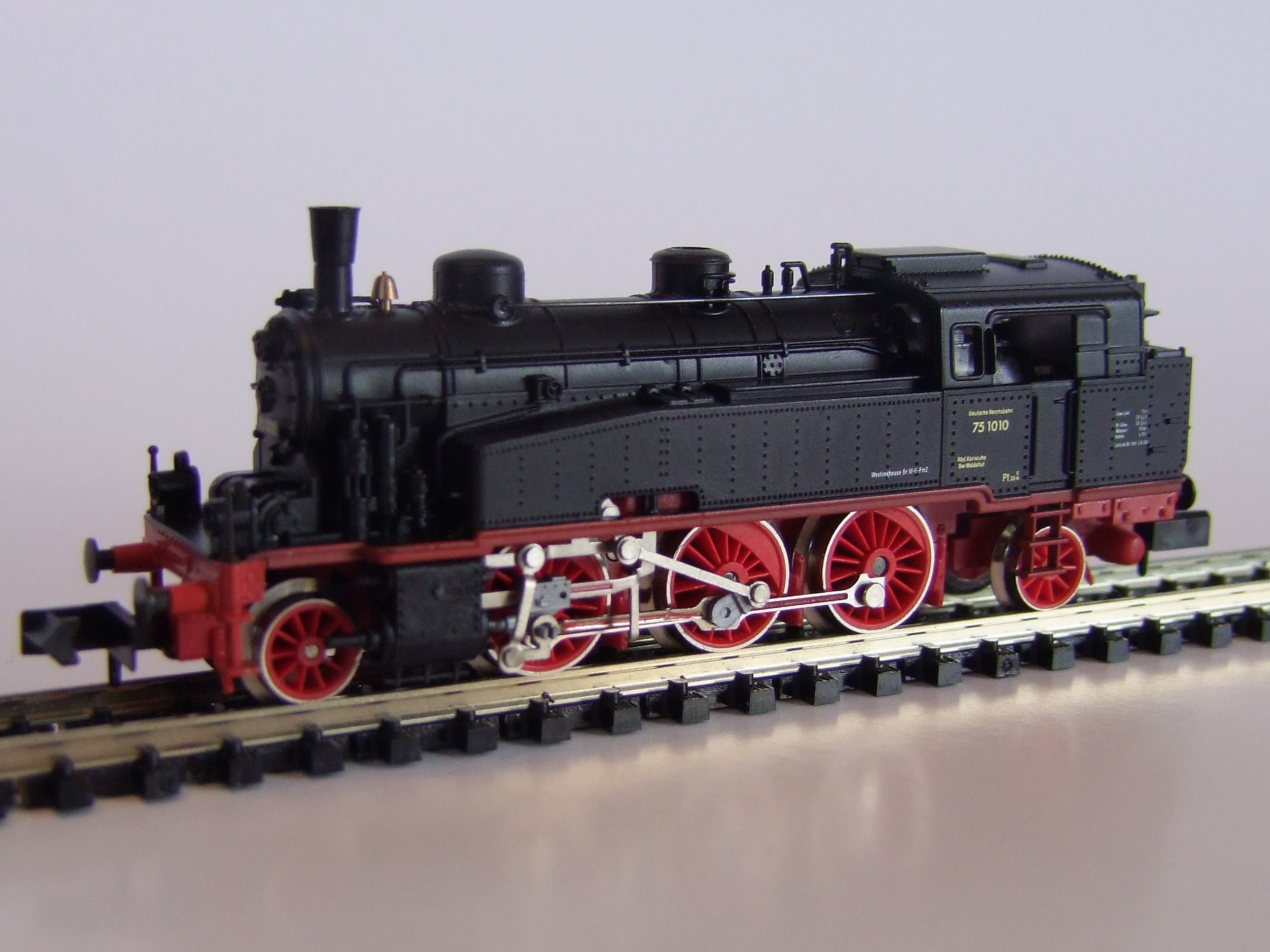 steam locomotive of the former German Imperial Railway class 75 model railway Arnold, item number 2214